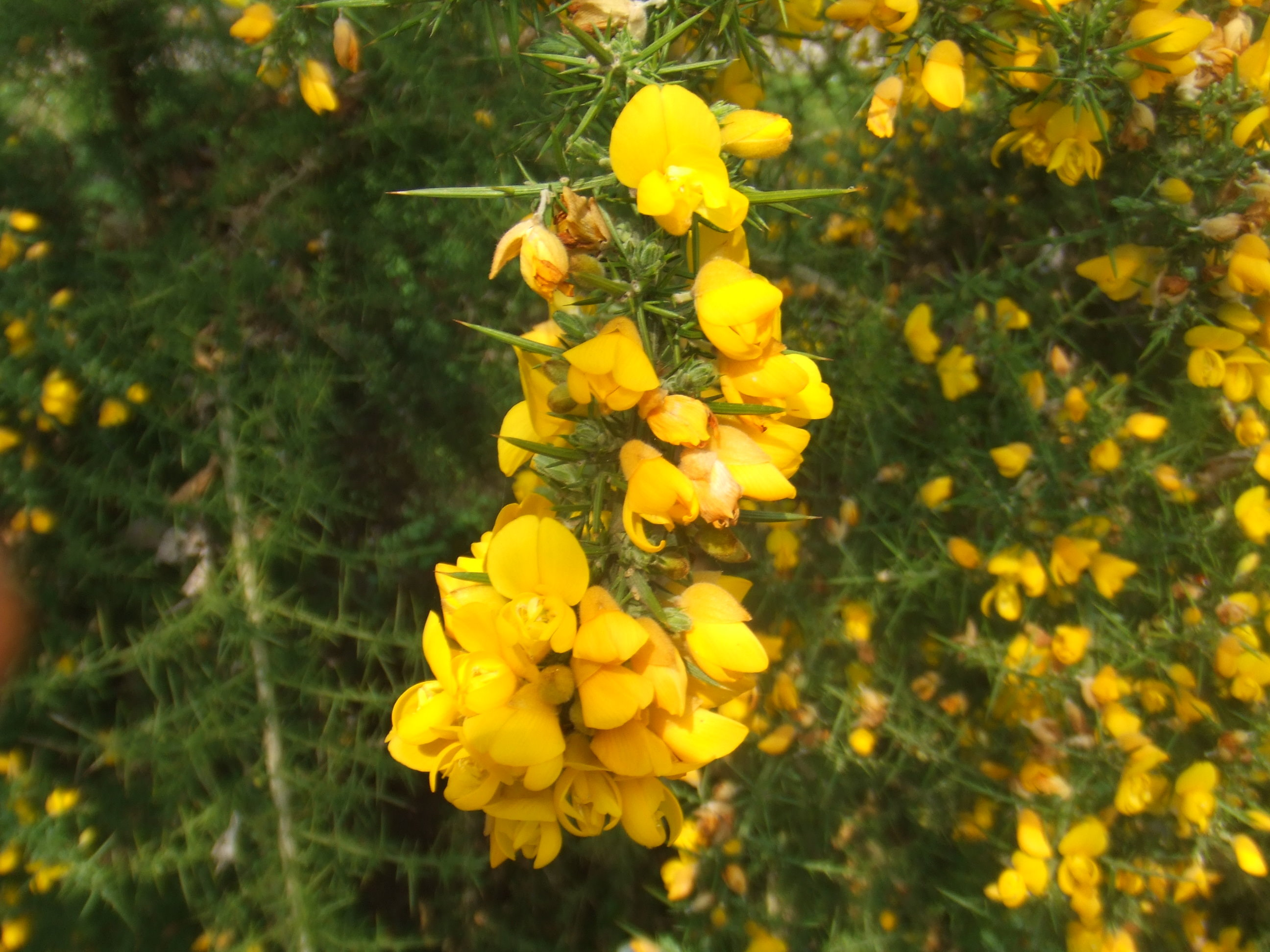 Ulex europaeus, picture taken at the Botanische Tuin TU Delft, Delft, The Netherlands